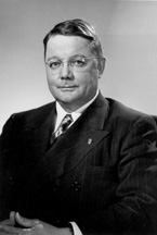 Portrait of Senator John Chandler Gurney